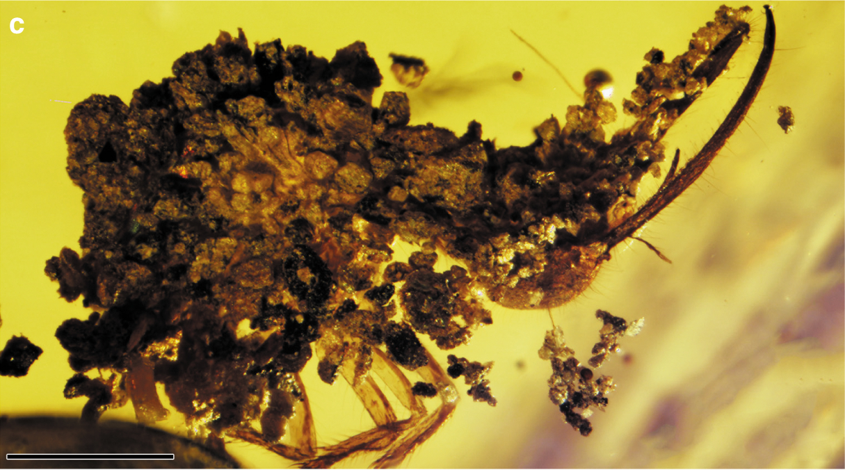 Diversity of the larvae of Myrmeleontiformia in mid-Cretaceous Burmese amber. C) Nymphavus progenitor gen. et sp. nov., paratype. Scale bar: 0.5 mm